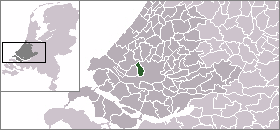 Location of Schiedam